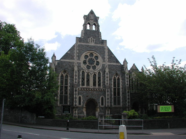 Brislington United Reformed Church, Brislington, Bristol, England, seen from the west